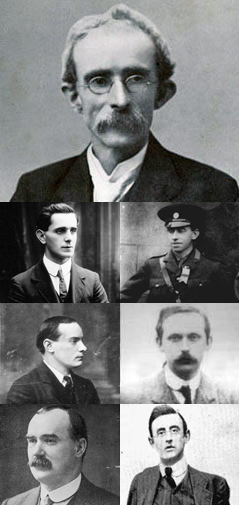 Composite picture of the signatories of the Proclamation of the Irish Republic, 1916. Composed of individual portraits in Category:Easter Rising.